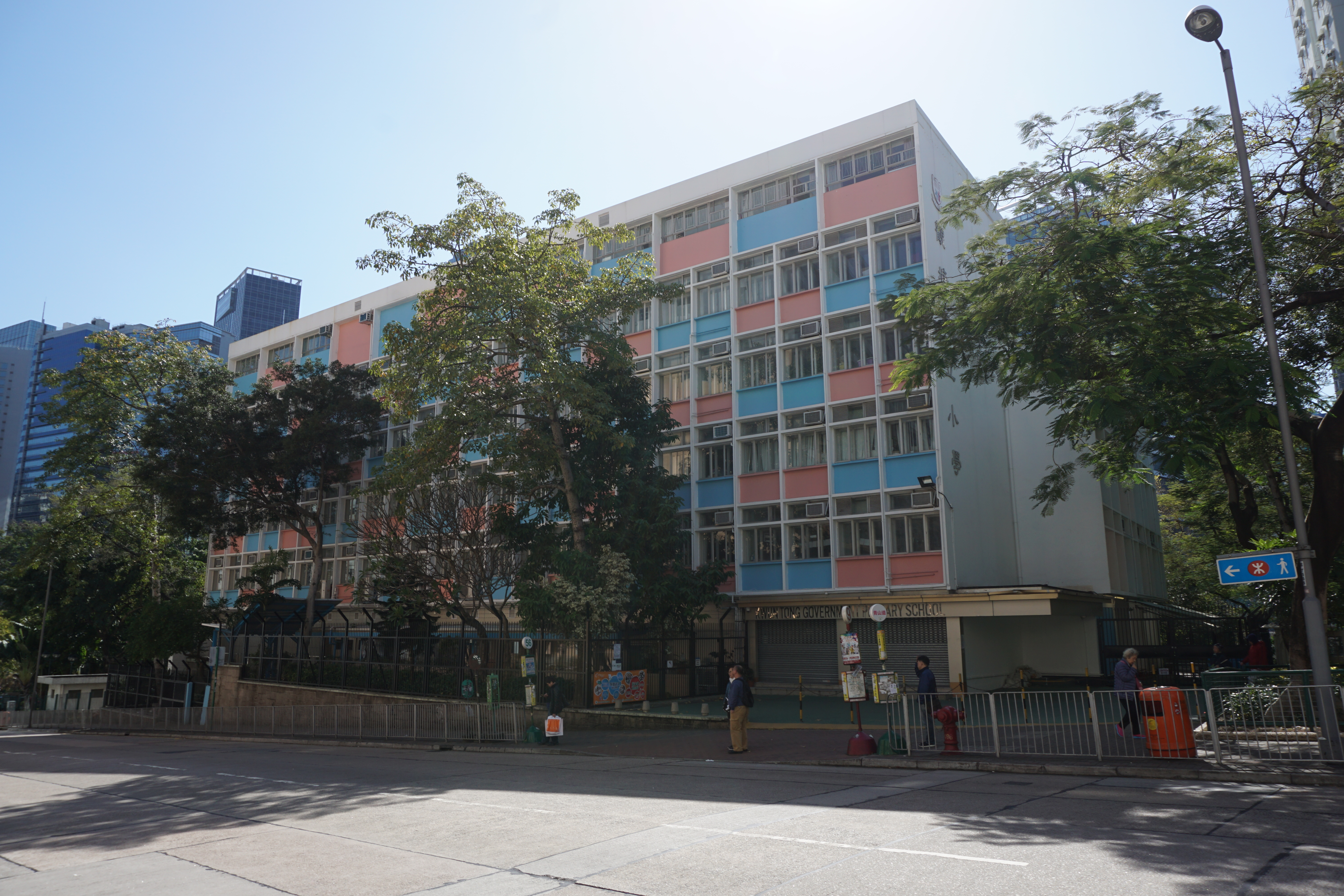 Kwun Tong Government Primary School in Ngau Tau Kok, Hong Kong.